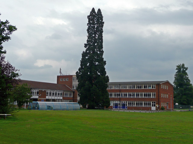 Broadwater School, Farncombe Designated a Maths and Computing Specialist College. An impressive double-headed redwood tree dominates the scene.